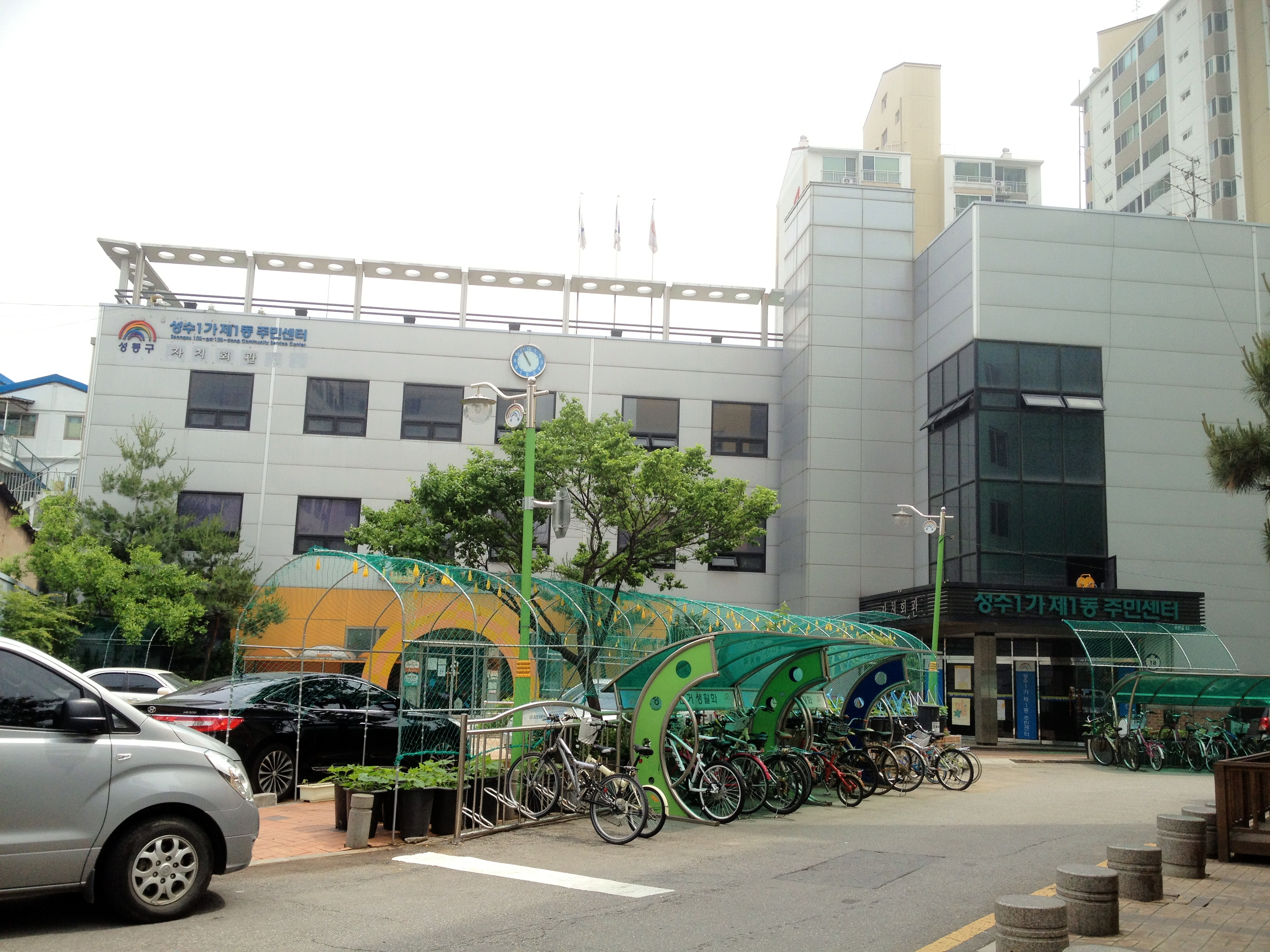 Seongsu 1-ga 1-dong Comunity Service Center(Seongdong-gu)